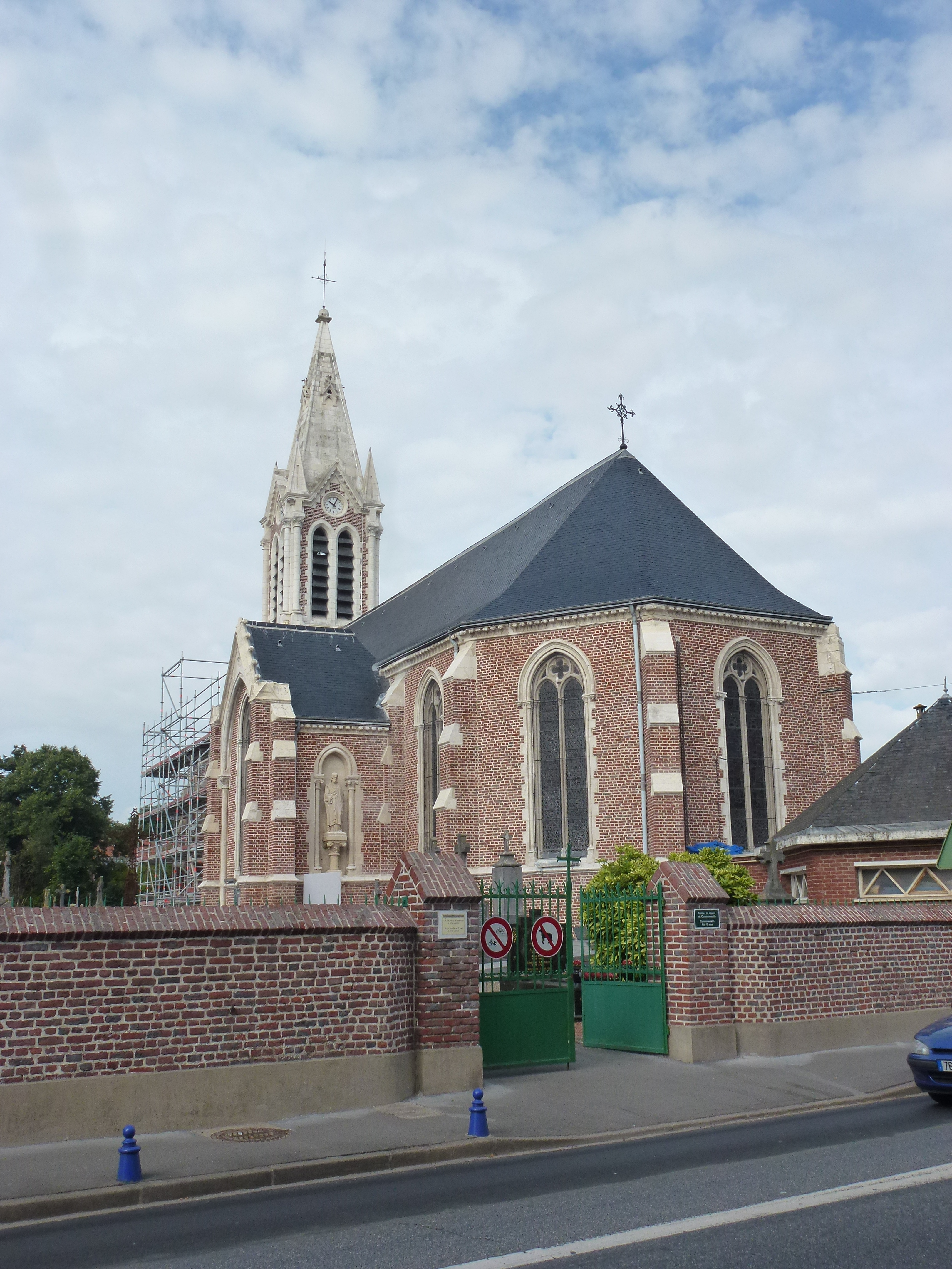 Saint-Martin-au-Laërt (Pas- de-Calais, Fr) église